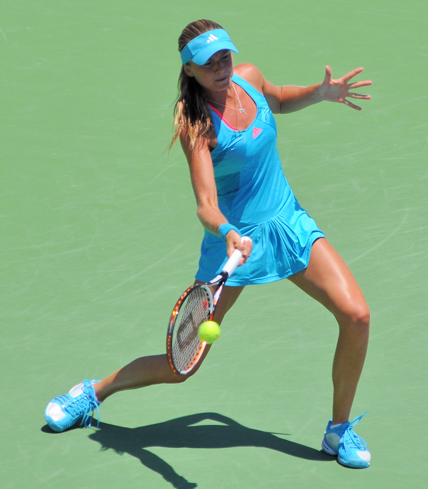 Daniela Hantuchová at Mercury Insurance Tennis Open 2011